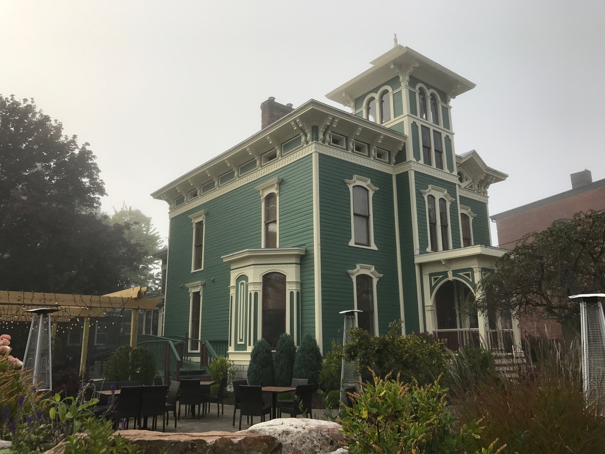 Captain Simon Johnston House in Clayton, New York